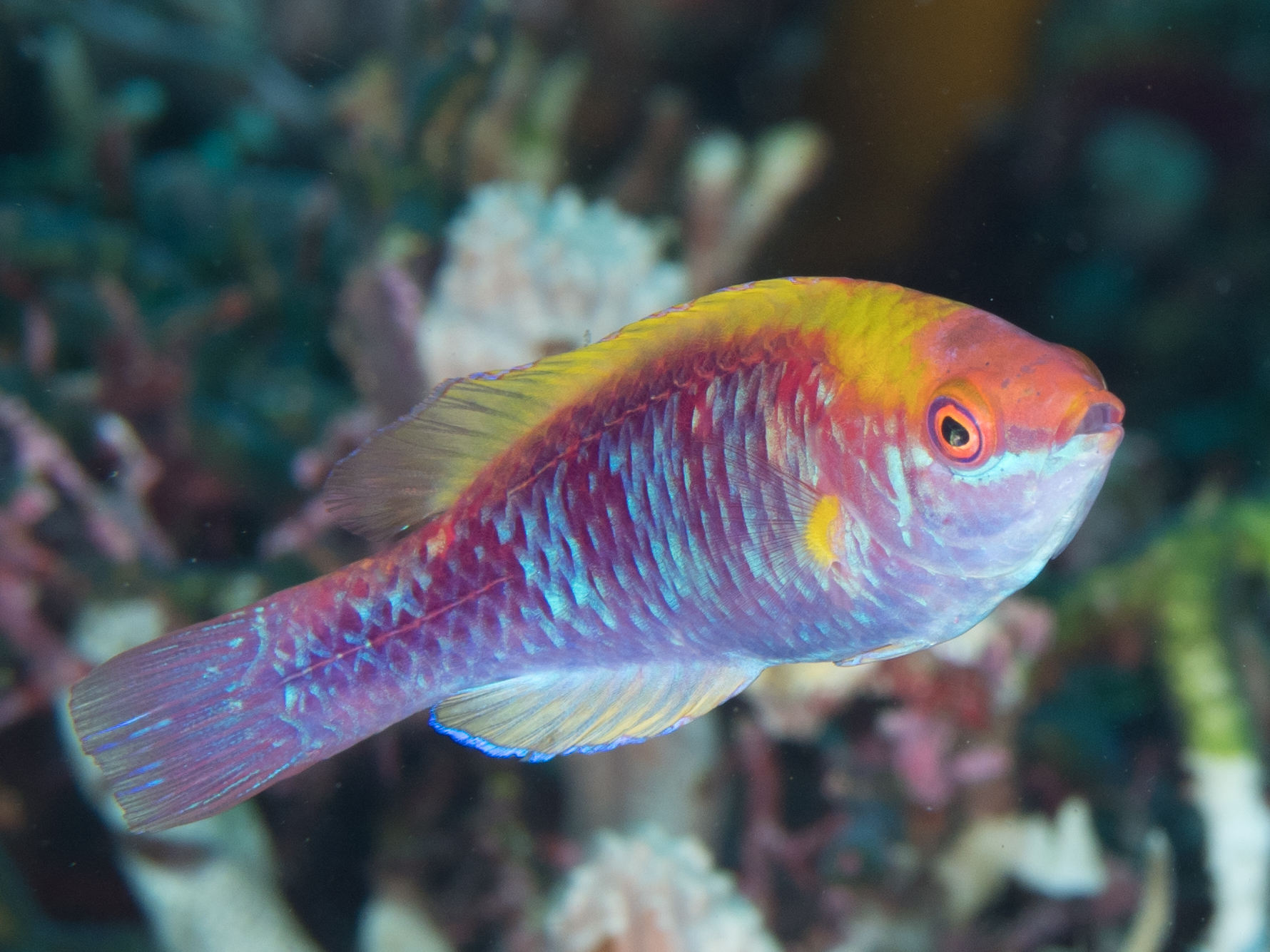 Indonesia / Raja ampat 2019 - Yellowback fairy wrasse (Cirrhilabrus lubbocki)